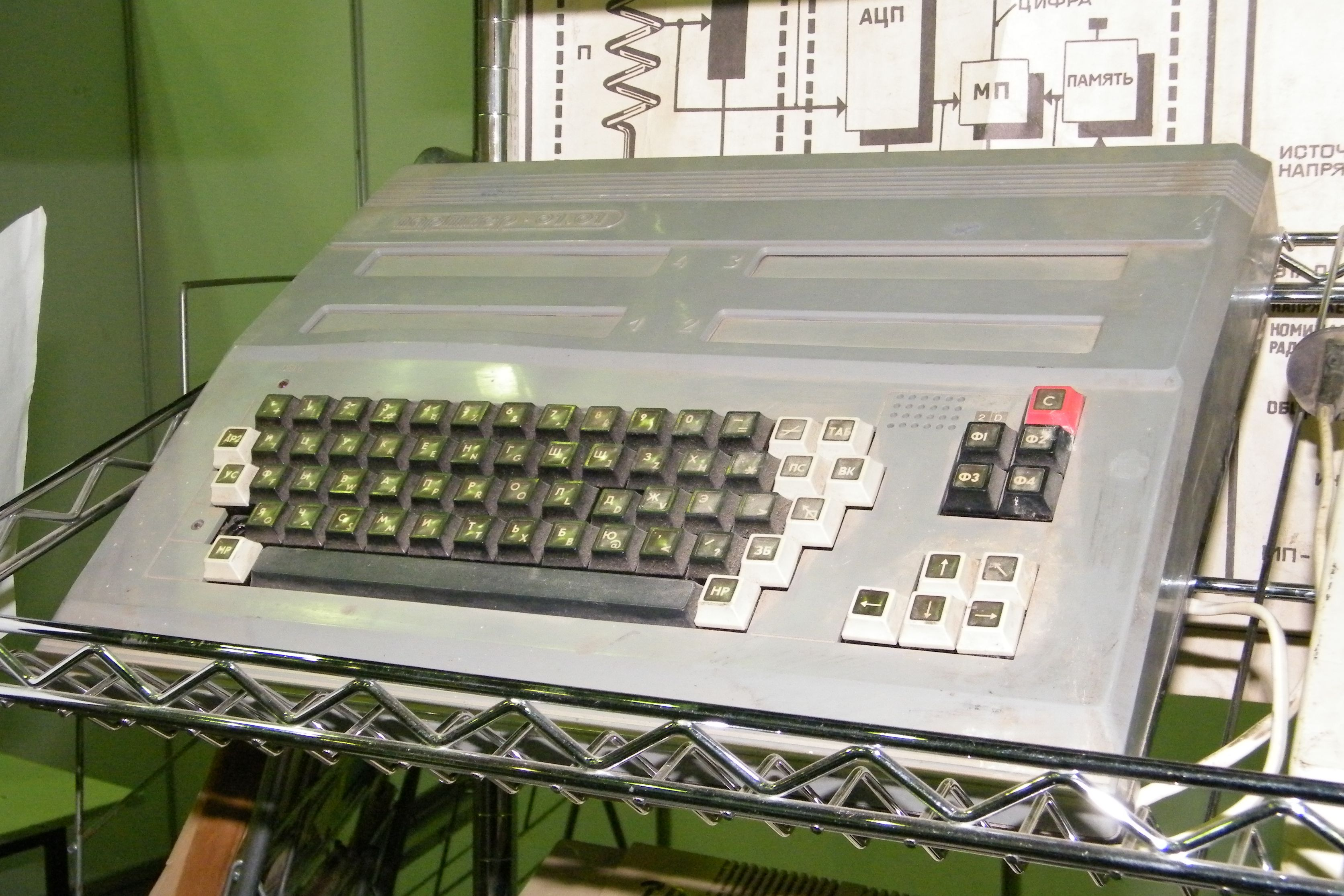 History of computing